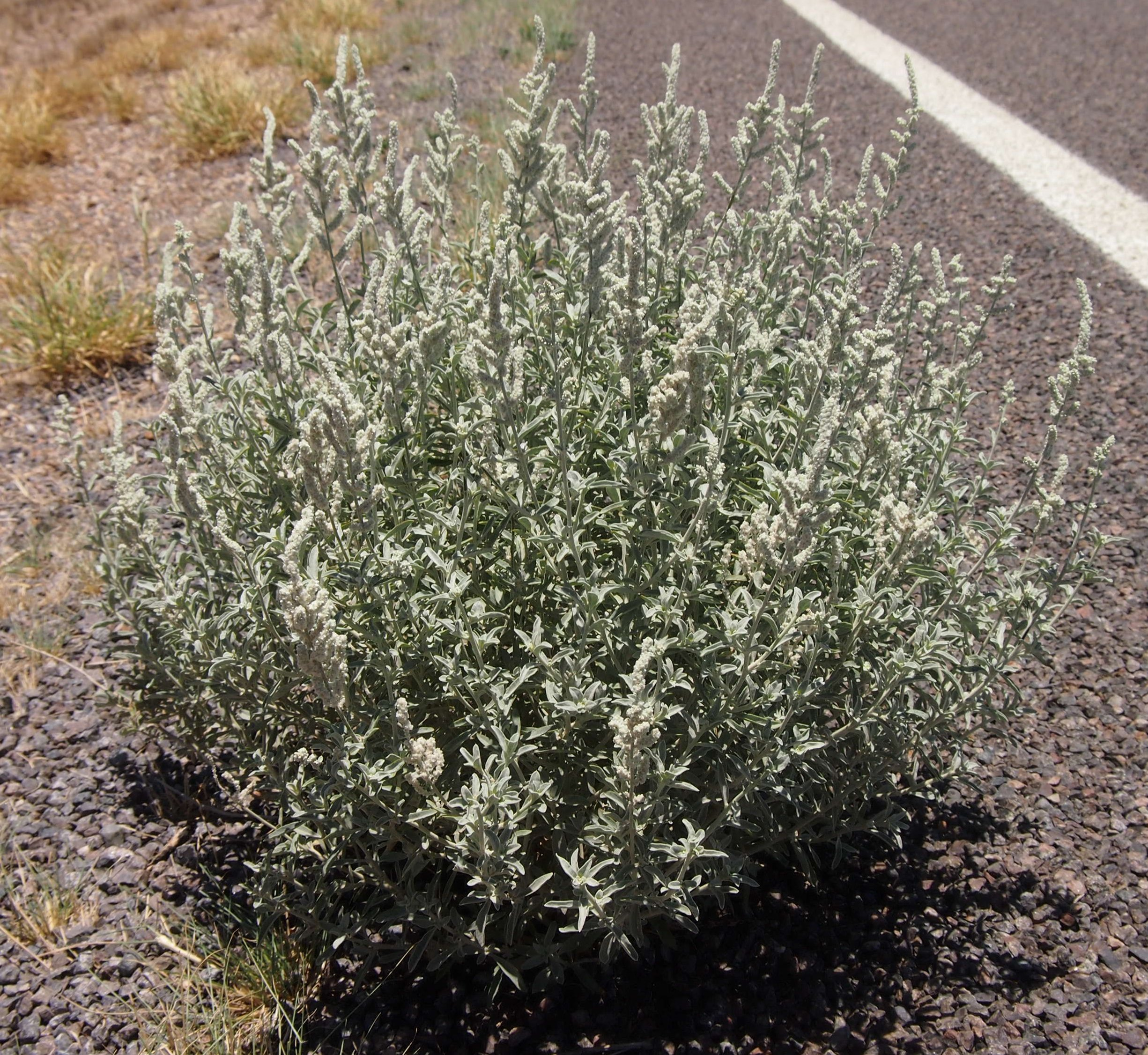 Aerva